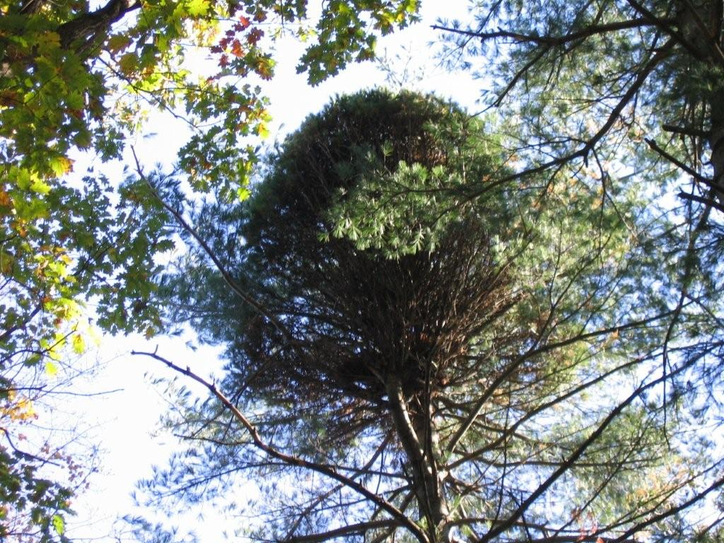 Witch's broom growth in a white pine in central Massachusetts.